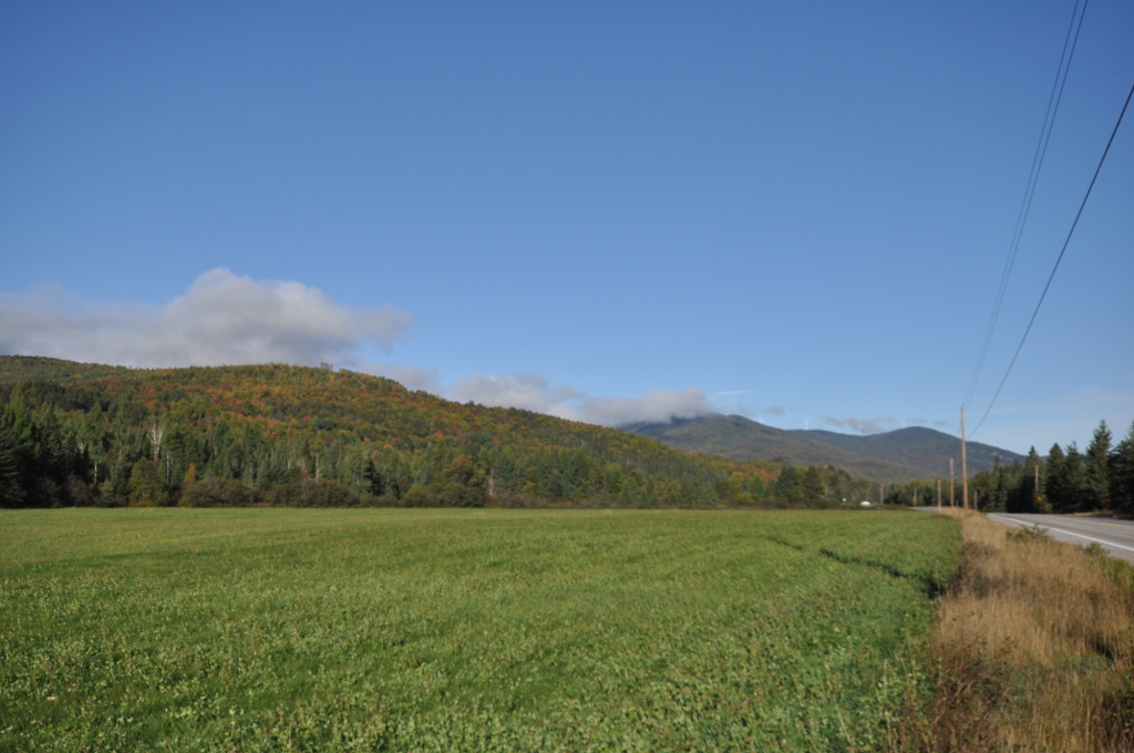 View of the Dixville Wind Farm from Millsfield Township, New Hampshire.